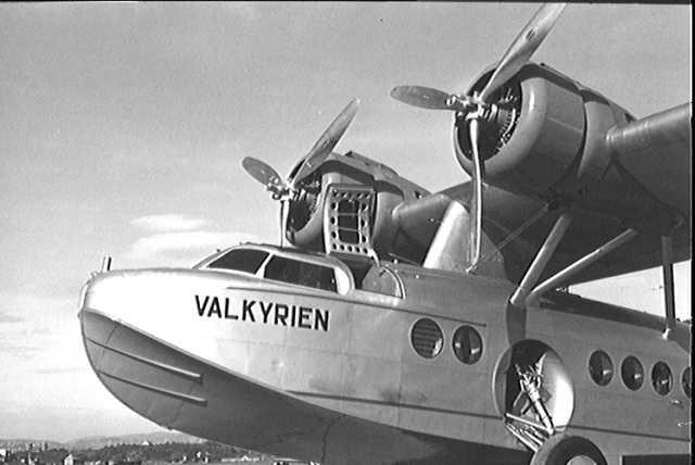 Close up of the front end of Sikorsky S-43 LN-DAG Valkyrien at Gressholmen Airport near Oslo in Norway.